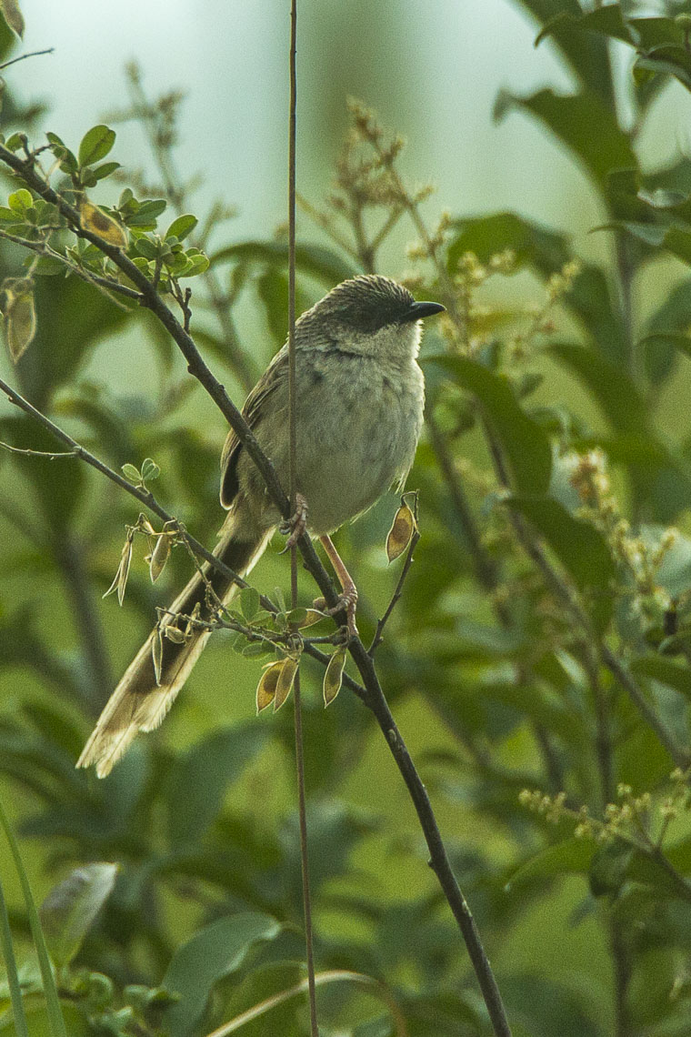 Striated Prinia - Bhutan_S4E9384